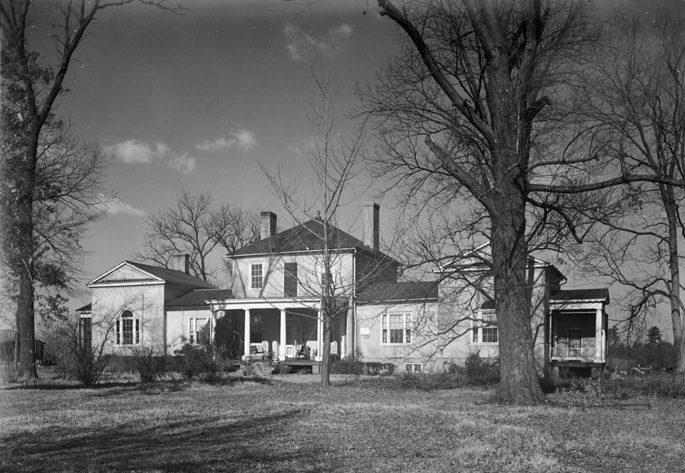 Battersea, 793 Appomattox Street (Petersburg city, Virginia) cropped HABS VA,27-PET,3-4 This file comes from the Historic American Buildings Survey (HABS), Historic American Engineering Record (HAER) or Historic American Landscapes Survey (HALS). These are programs of the National Park Service established for the purpose of documenting historic places. Records consist of measured drawings, archival photographs, and written reports. When reusing please credit: Library of Congress, Prints & Photographs Division, VA-136 This tag does not indicate the copyright status of the attached work. A normal copyright tag is still required. See Commons:Licensing for more information. English | +/− This work is in the public domain in the United States because it is a work prepared by an officer or employee of the United States Government as part of that person’s official duties under the terms of Title 17, Chapter 1, Section 105 of the US Code. See Copyright. Note: This only applies to original works of the Federal Government and not to the work of any individual U.S. state, territory, commonwealth, county, municipality, or any other subdivision. This template also does not apply to postage stamp designs published by the United States Postal Service since 1978. (See 206.02(b) of Compendium II: Copyright Office Practices). It also does not apply to certain US coins; see The US Mint Terms of Use. This file has been identified as being free of known restrictions under copyright law, including all related and neighboring rights.